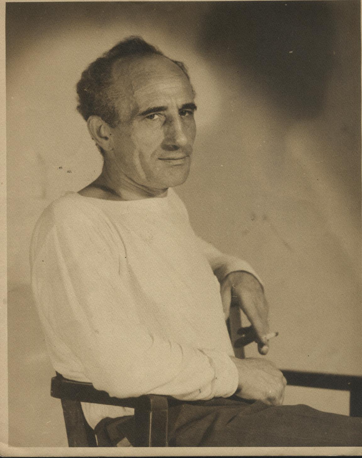 Image:Fields_in_studio